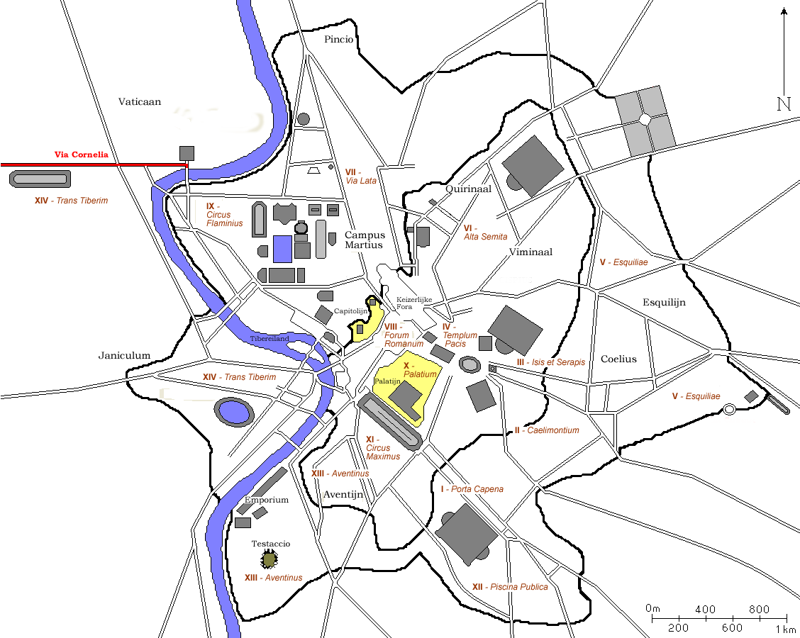 Via Cornelia on a map of ancient Rome around 300 AD